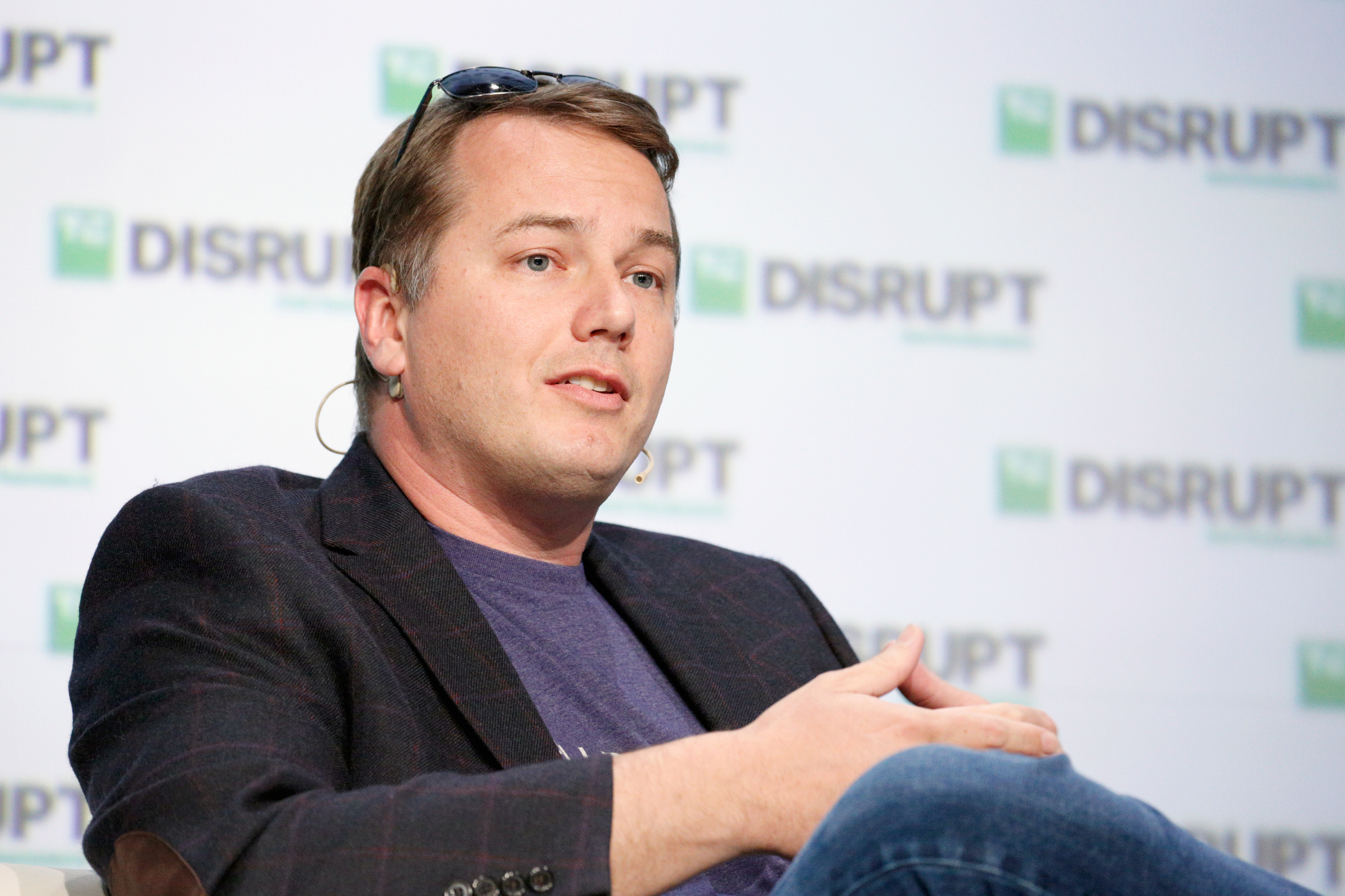 SAN FRANCISCO, CA - SEPTEMBER 05: Aurora CEO Chris Urmson speaks onstage during Day 1 of TechCrunch Disrupt SF 2018 at Moscone Center on September 5, 2018 in San Francisco, California. (Photo by Kimberly White/Getty Images for TechCrunch)